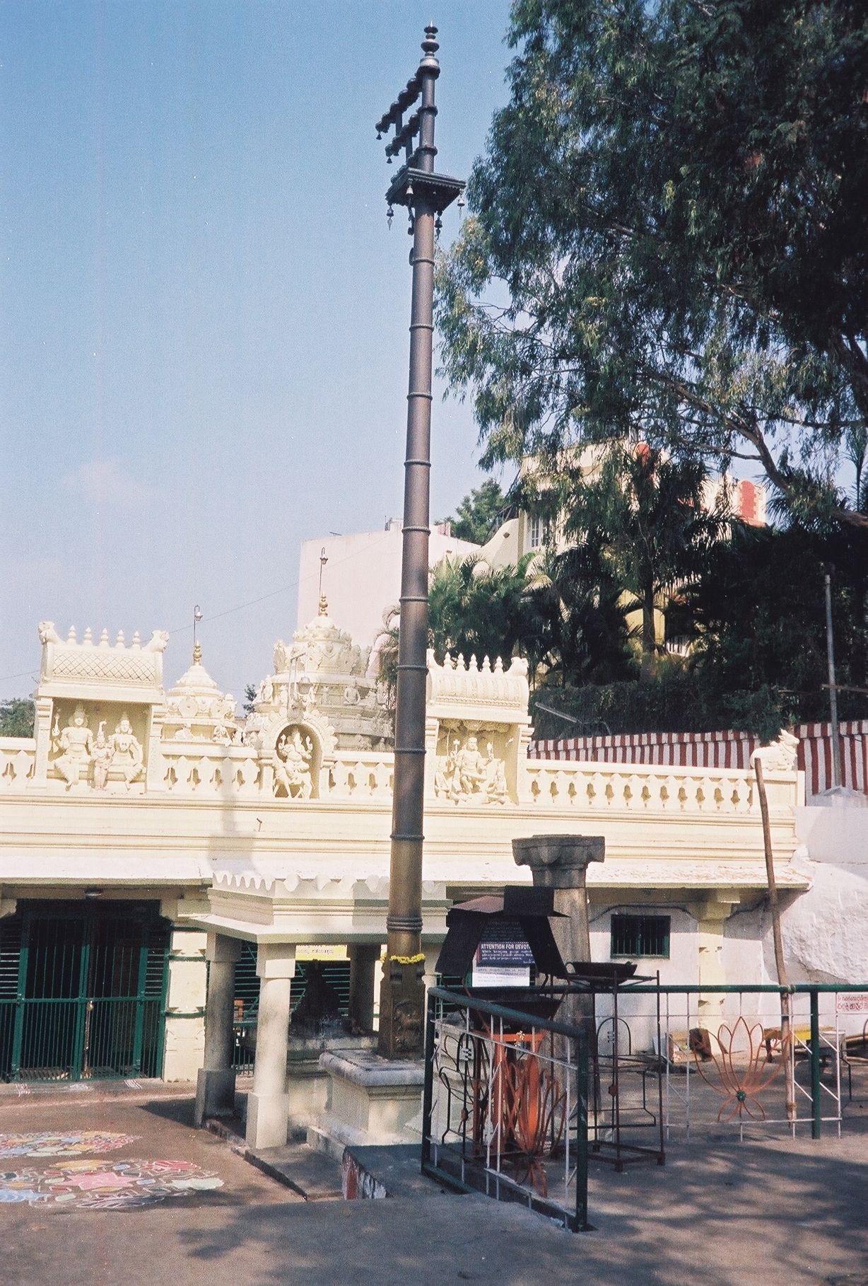 Dvajasthamba outsied the Gavipuram Shiva temple in Bangalore